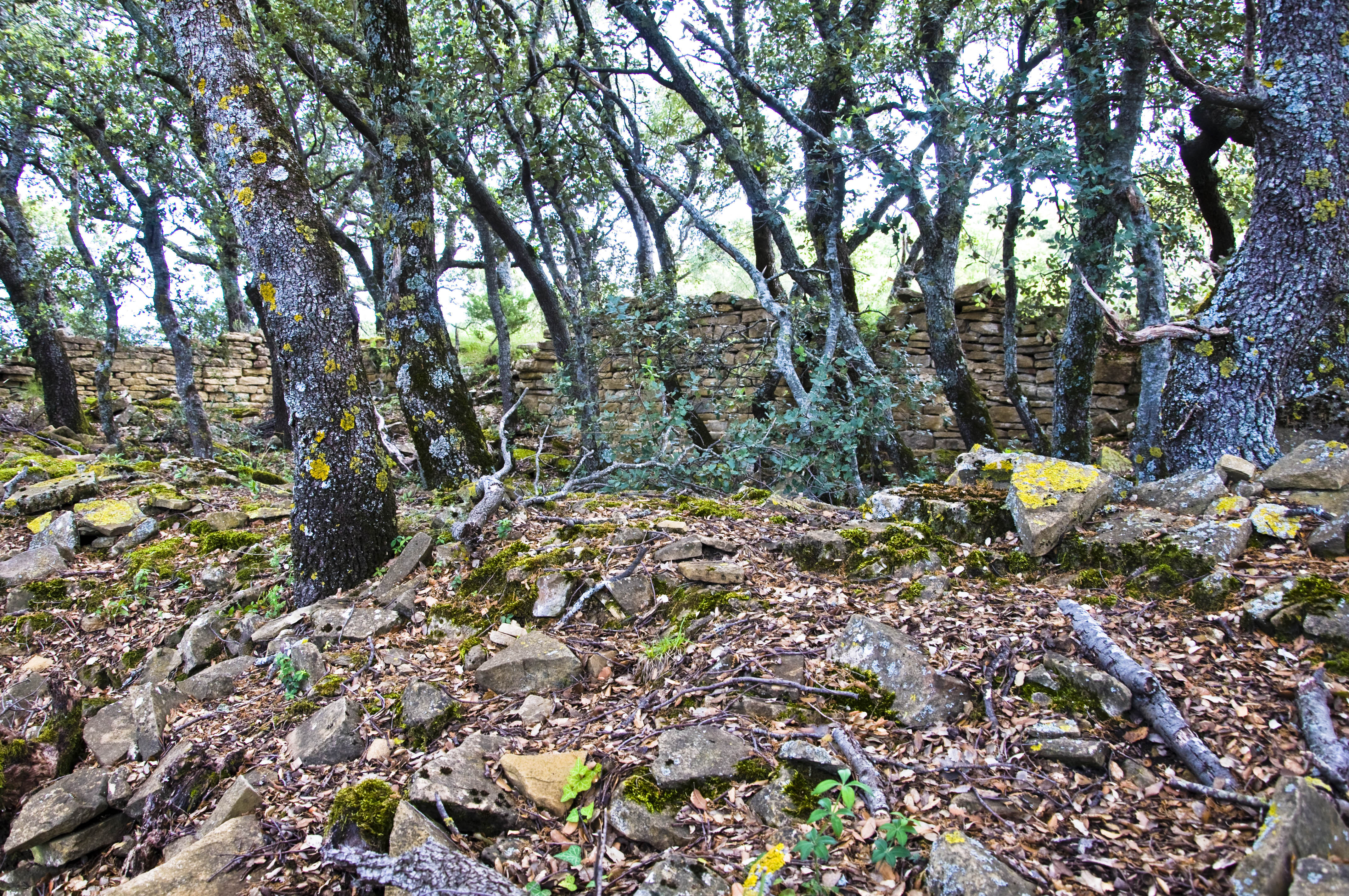 Desolate ruins of the town of Etxano